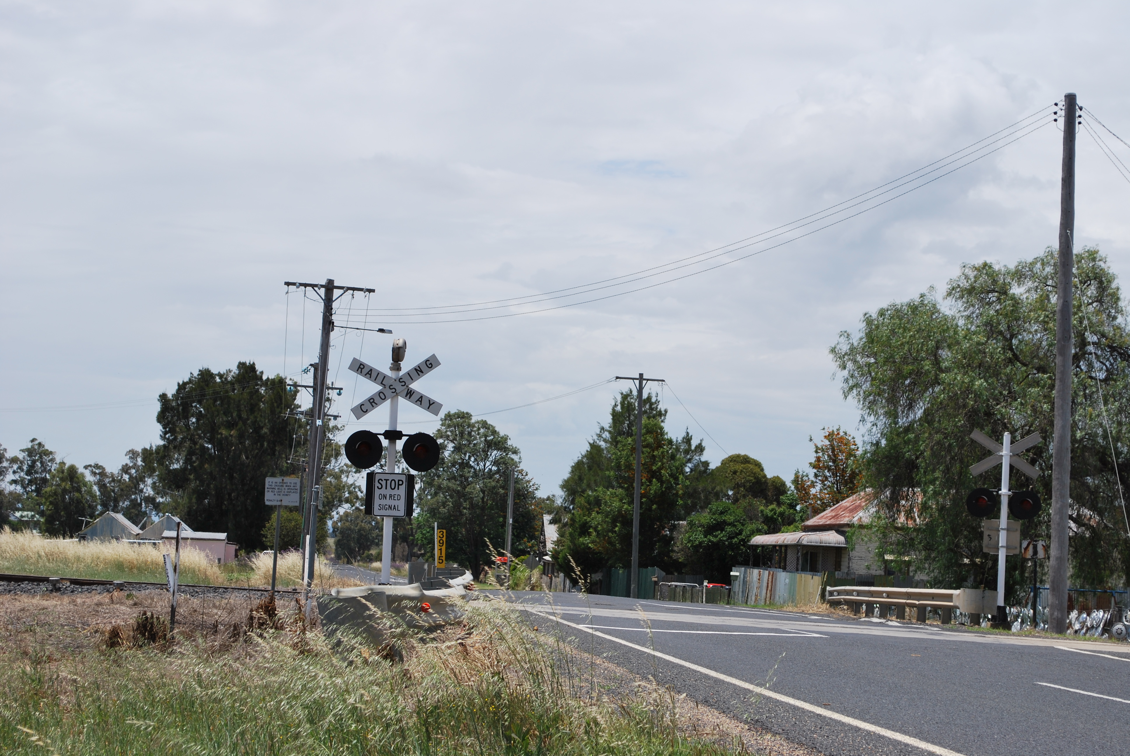 Rail crossing at Birriwa, New South Wales